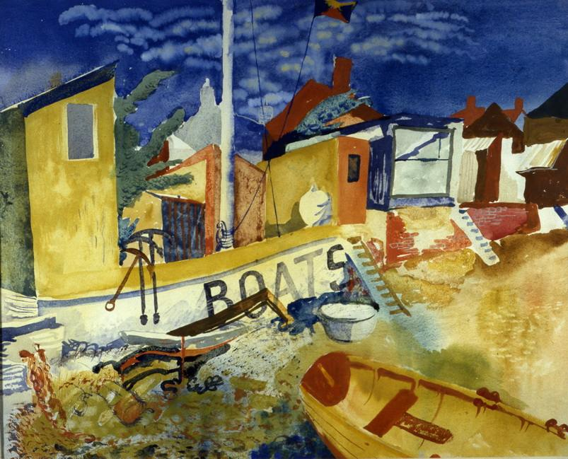 The Boat, Hythe. Rowing boat drawn up on the shingle of the beach, with a jumble of buildings on the other side of the wall. William Geissler, Watercolour, 1954. Exhibited at the 1954 RSA exhibition, Edinburgh.